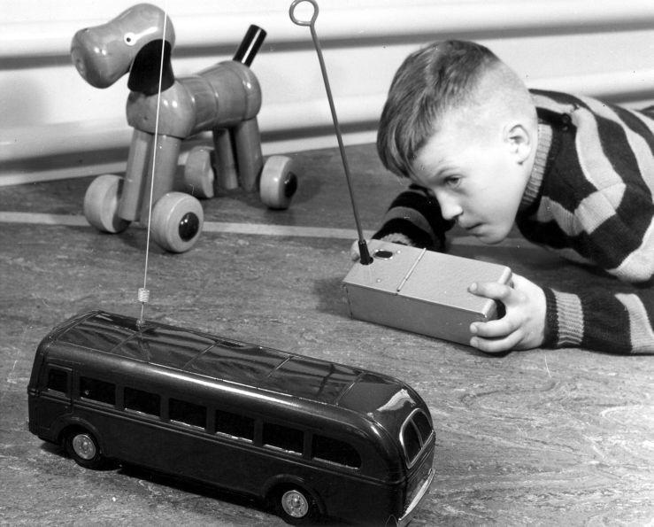 Boy playing with a radio-controlled toy bus. Almelo, The Netherlands, 1957. Hebt u meer informatie over deze foto, laat het ons weten. Laat een reactie achter (als u ingelogd bent bij Flickr) of stuur een mailtje naar: Please help us gain more knowledge on the content of our collection by simply adding a comment with information. If you do not wish to log in, you can write an e-mail to: Meer foto’s van Spaarnestad Photo zijn te vinden op onze beeldbank